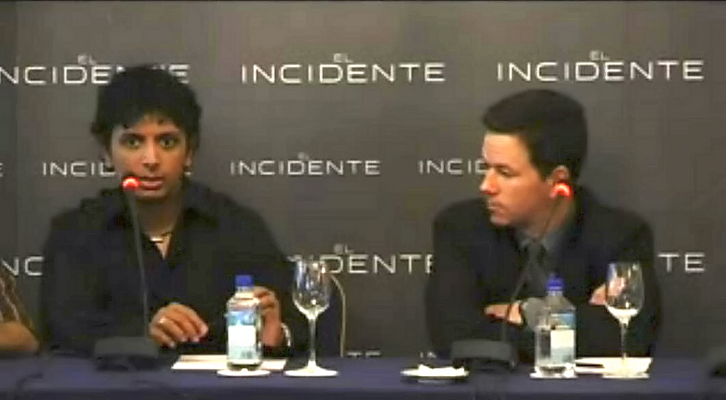 M. Night Shyamalan and Mark Wahlberg for "El Incidente" ("The Happening", 2008).